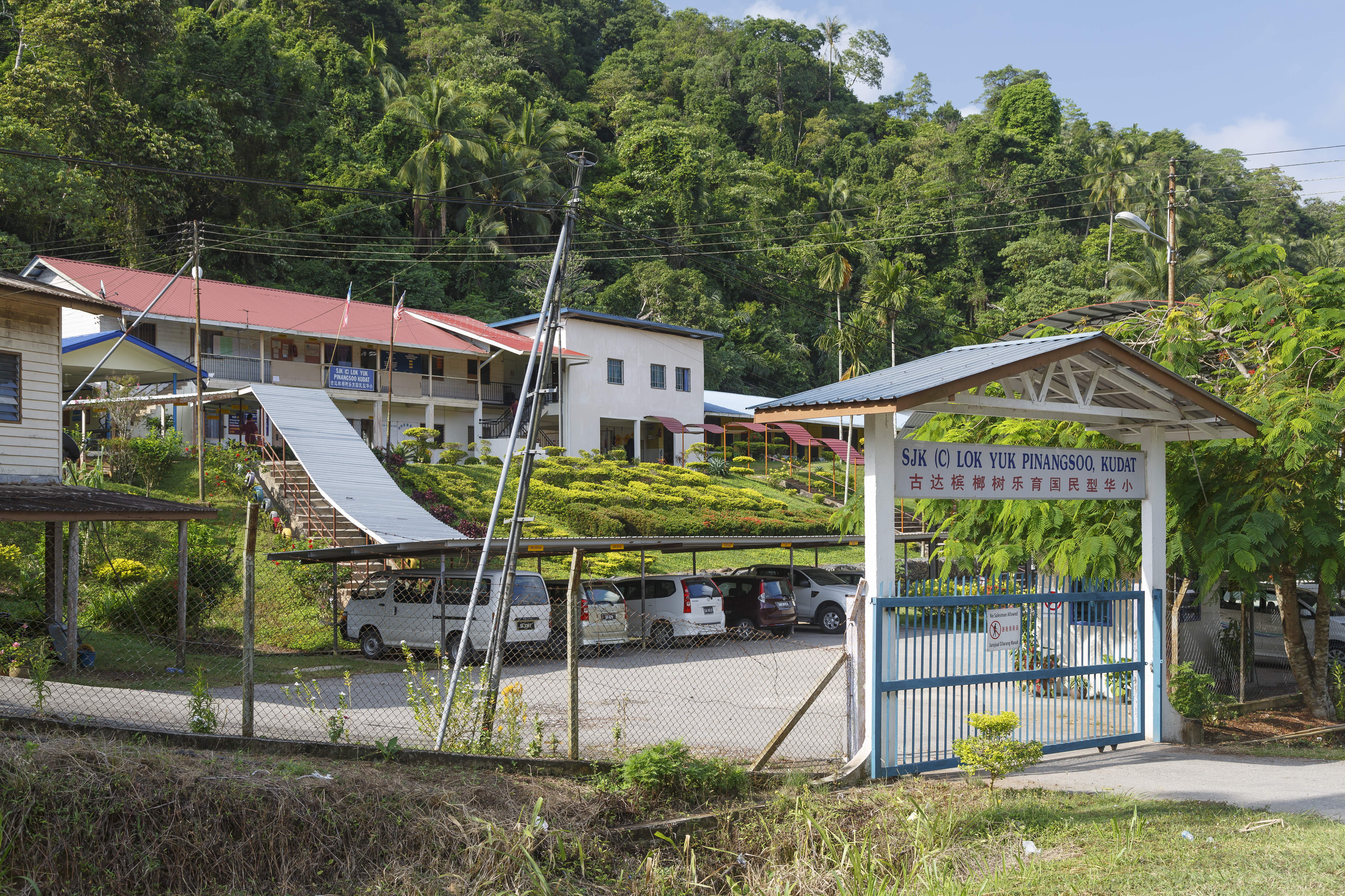 Kg. Pinangsoo, Kudat, Sabah: SJK (C) Lok Yuk Pinangsoo, a primary school in Sabah